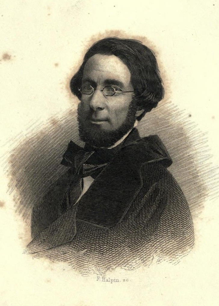 Engraved portrait of American writer William H. C. Hosmer (1814-1877), cropped version. From The Knickerbocker Gallery, New York: Samuel Hueston, 1855: p. 131.